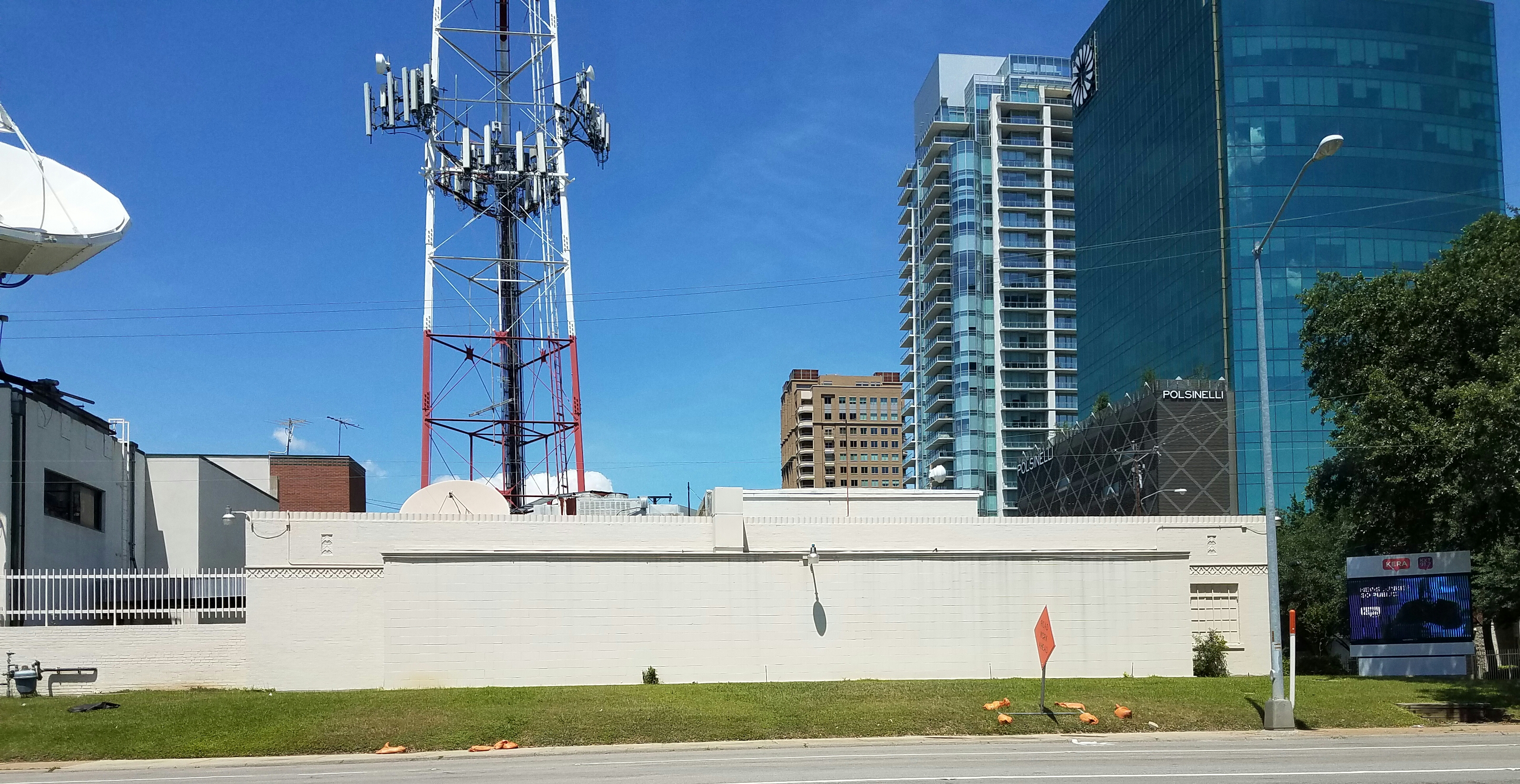 Site of KERA's TV studios and offices, as well as those of radio stations KERA-FM and KKXT-FM.